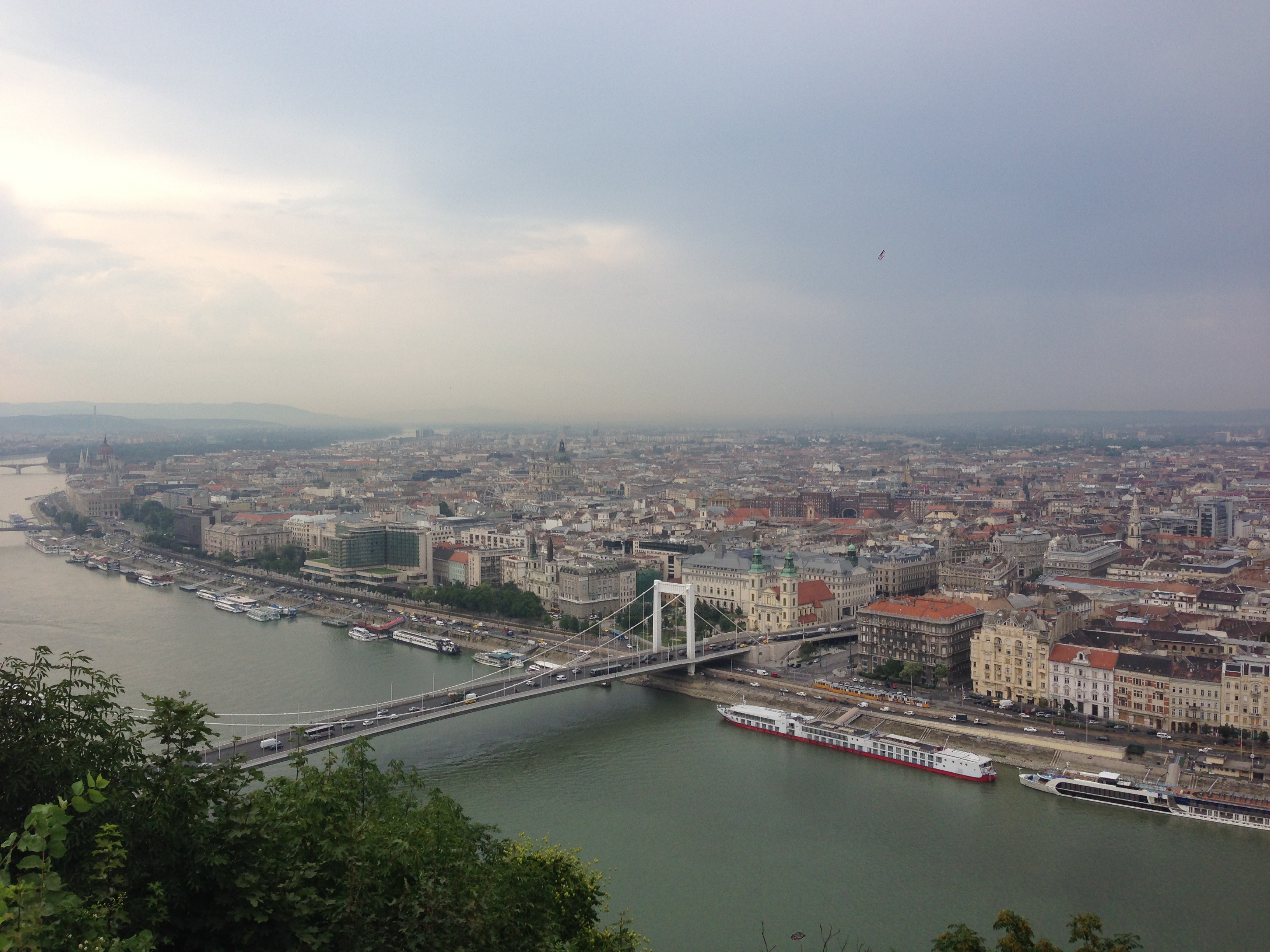 View from the top of the Gellért Hill in Budapest. The bridge in the middle of the picture the is the Elisabeth Bridge.